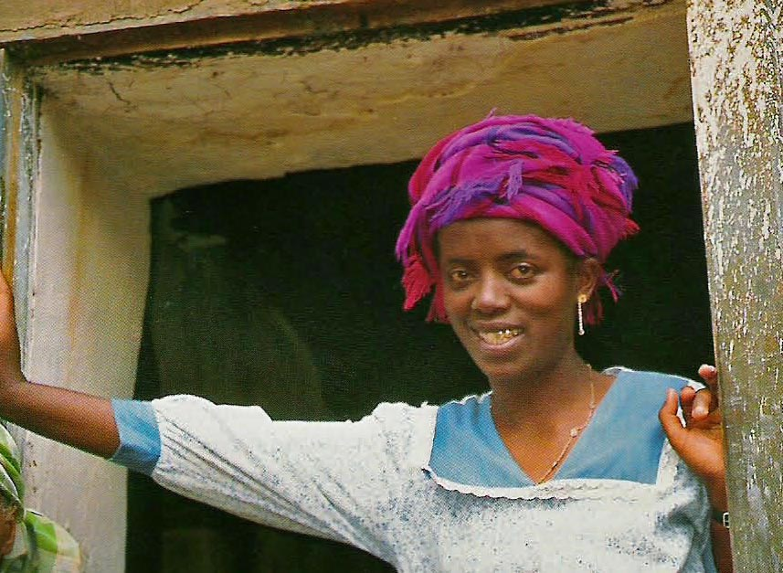 PERLINE RAZAFIARISOA, popular HIRA GASY OPERA artist, in the village of Mandrosoa, madagascar